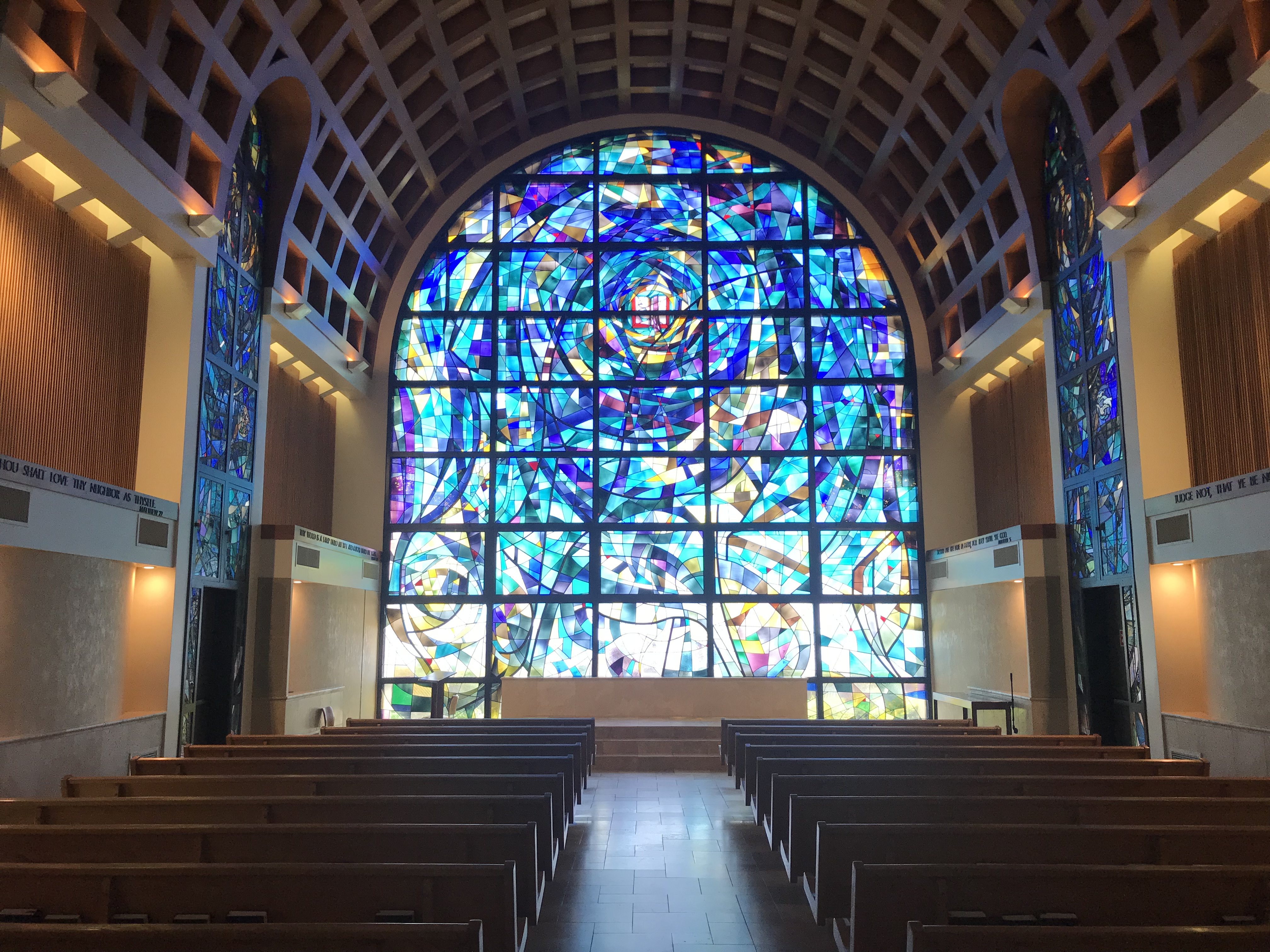 The interior of Stauffer Chapel on the campus of Pepperdine University in 2019, with stained glass designed by Robert and Bette Donovan in 1973.